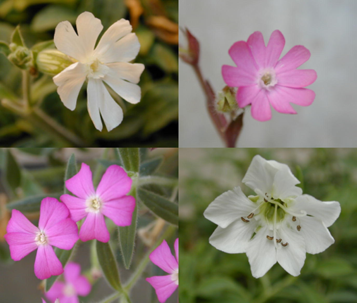 Flowers of Silene species, clockwise from top left: male flowers of Silene latifolia and Silene dioica, hermaphrodite flower of Silene vulgaris, male flower of Silene diclinis